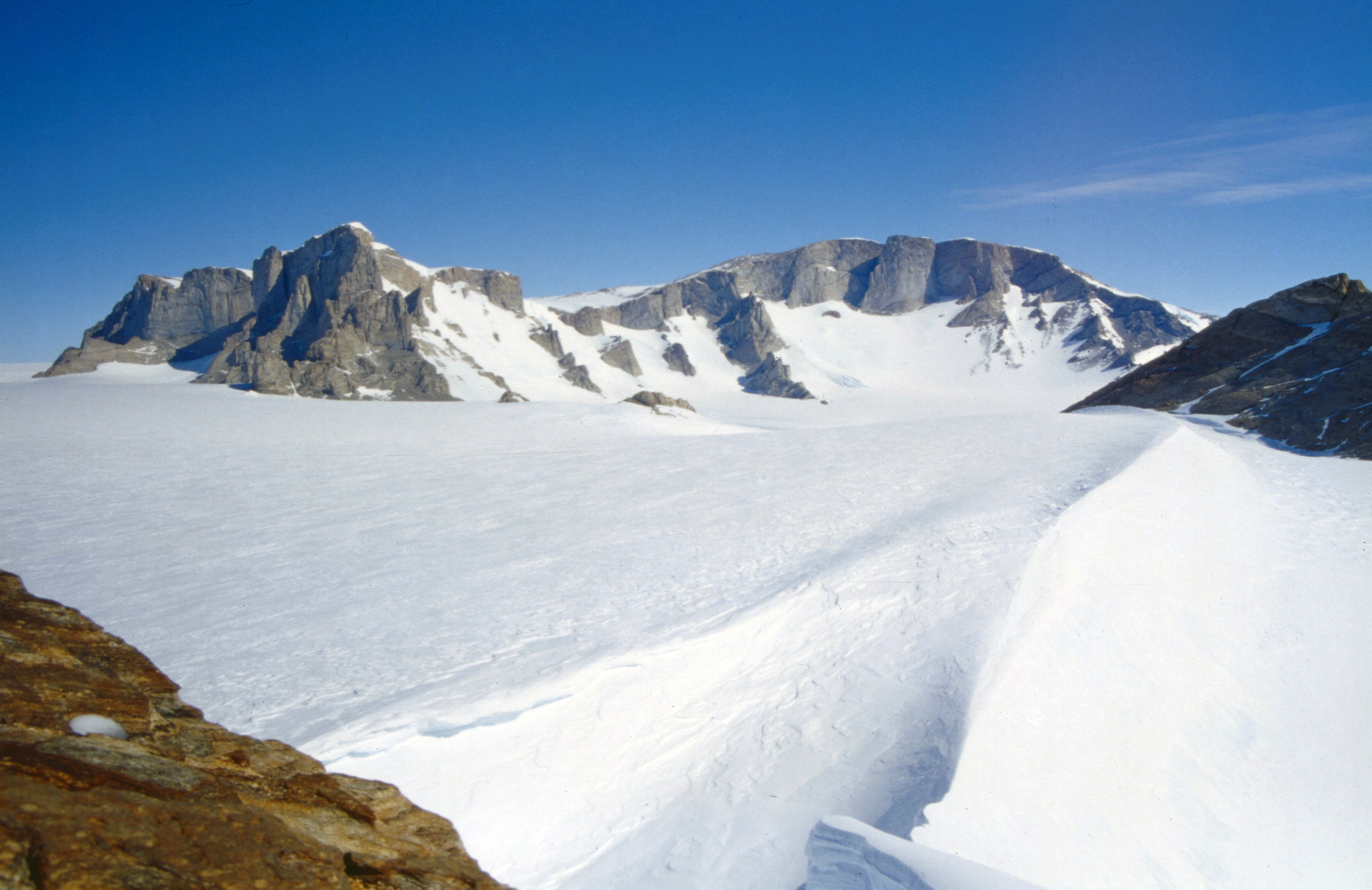 Risemedet, the eastern part of the Gjelsvik Mountains, Antarctica, seen from Risen, a nunatak 5 km NE of the mountains